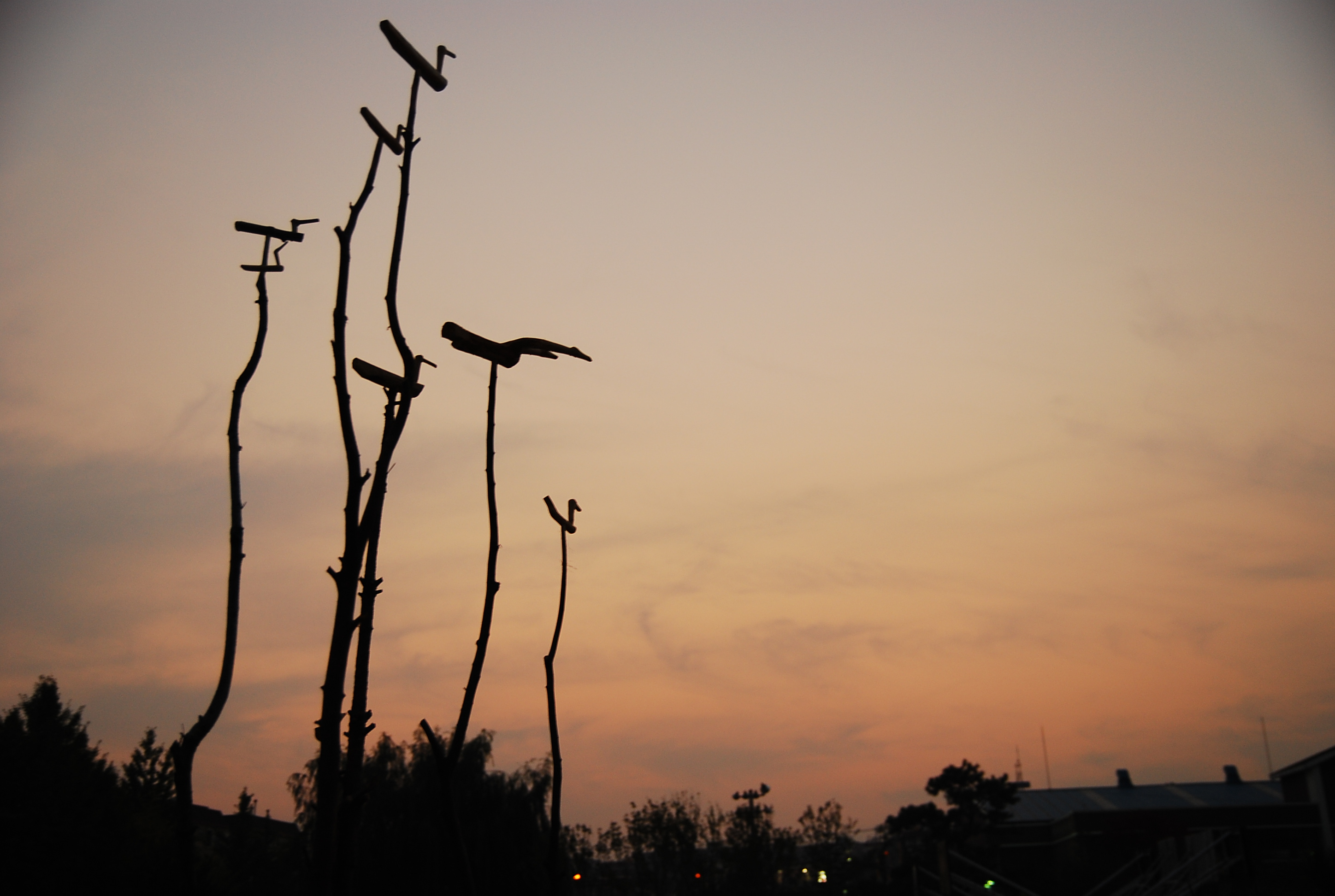 Sotdae